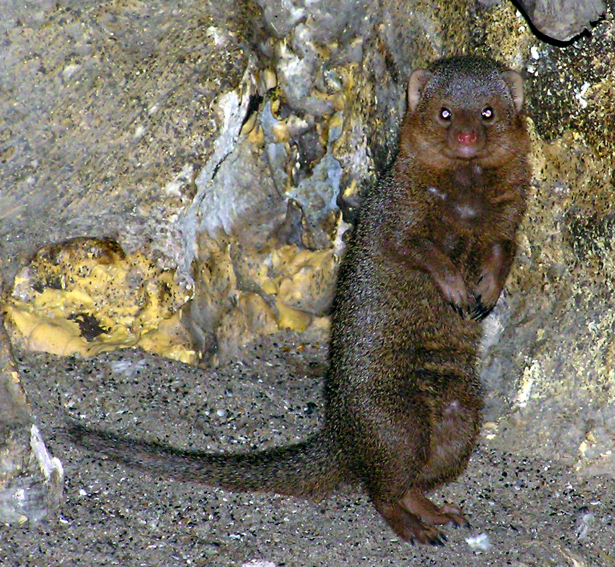 Dwarf mongoose Helogale parvula in Twilight World at Bristol Zoo, Bristol, England. Habitat: Africa.